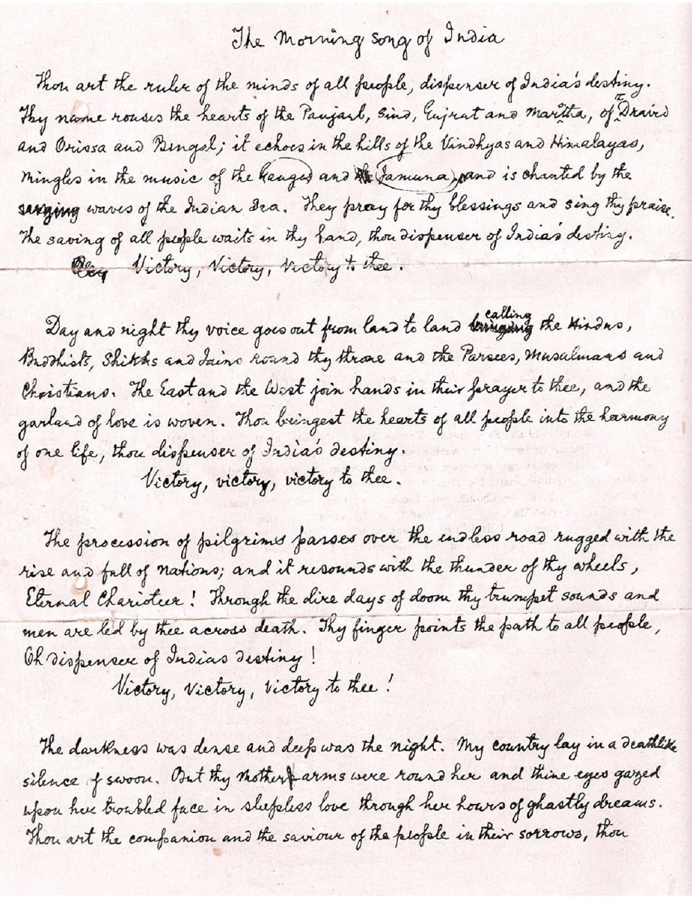 The English translation of Jana Gana Mana written by Tagore in his own handwriting, created on February 28, 1919 during his visit to and at the Besant Theosophical College. Page 1 of the scanned document.